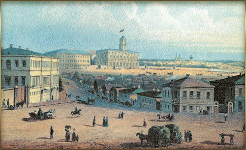 Kalanchevskaya (Komsomolskaya) Square and Nikolaevsky Rail Terminal, Moscow, 1850s